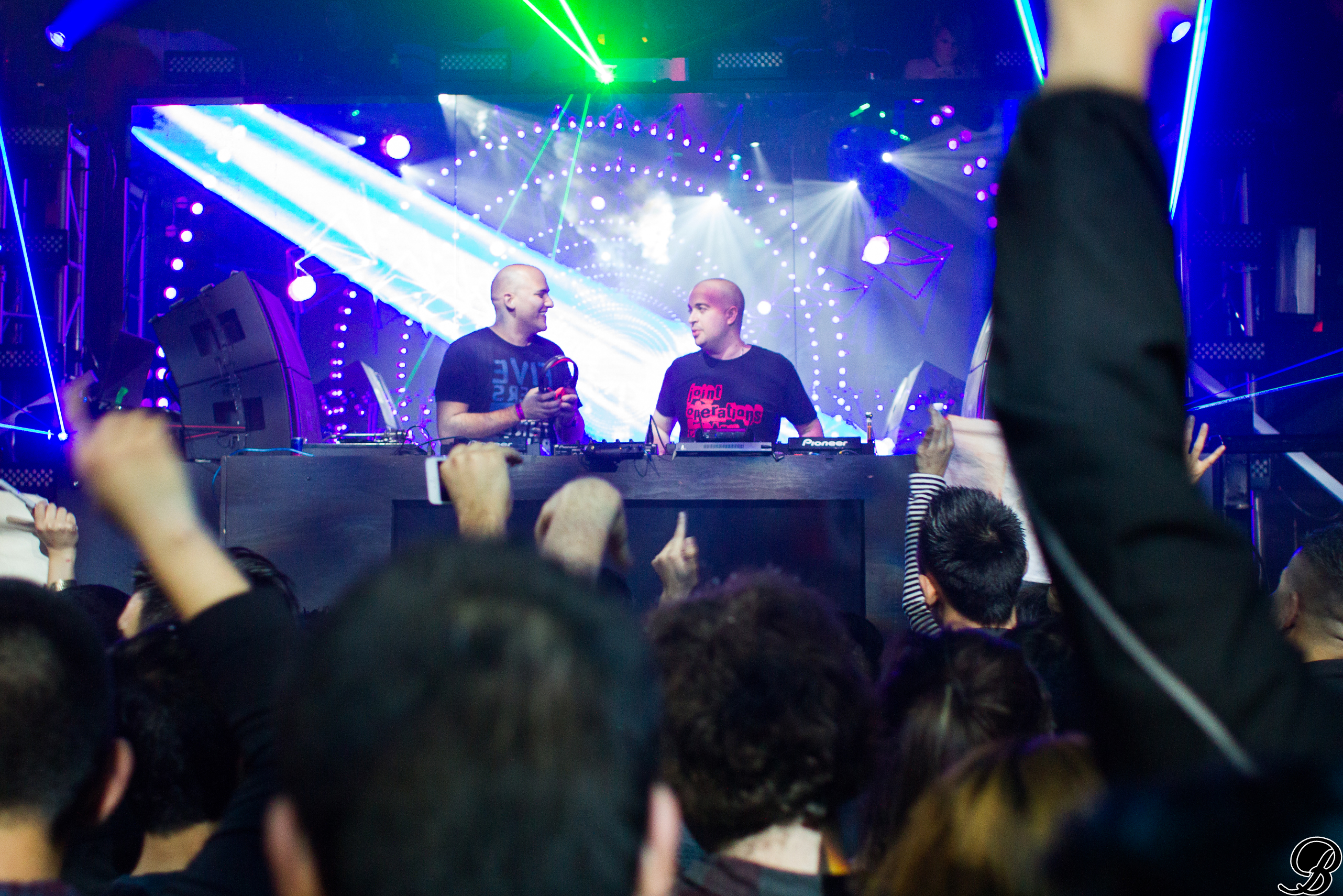 Awakening Fridays, Armada Night w/ Aly & Fila + John O'Callaghan (B2B)